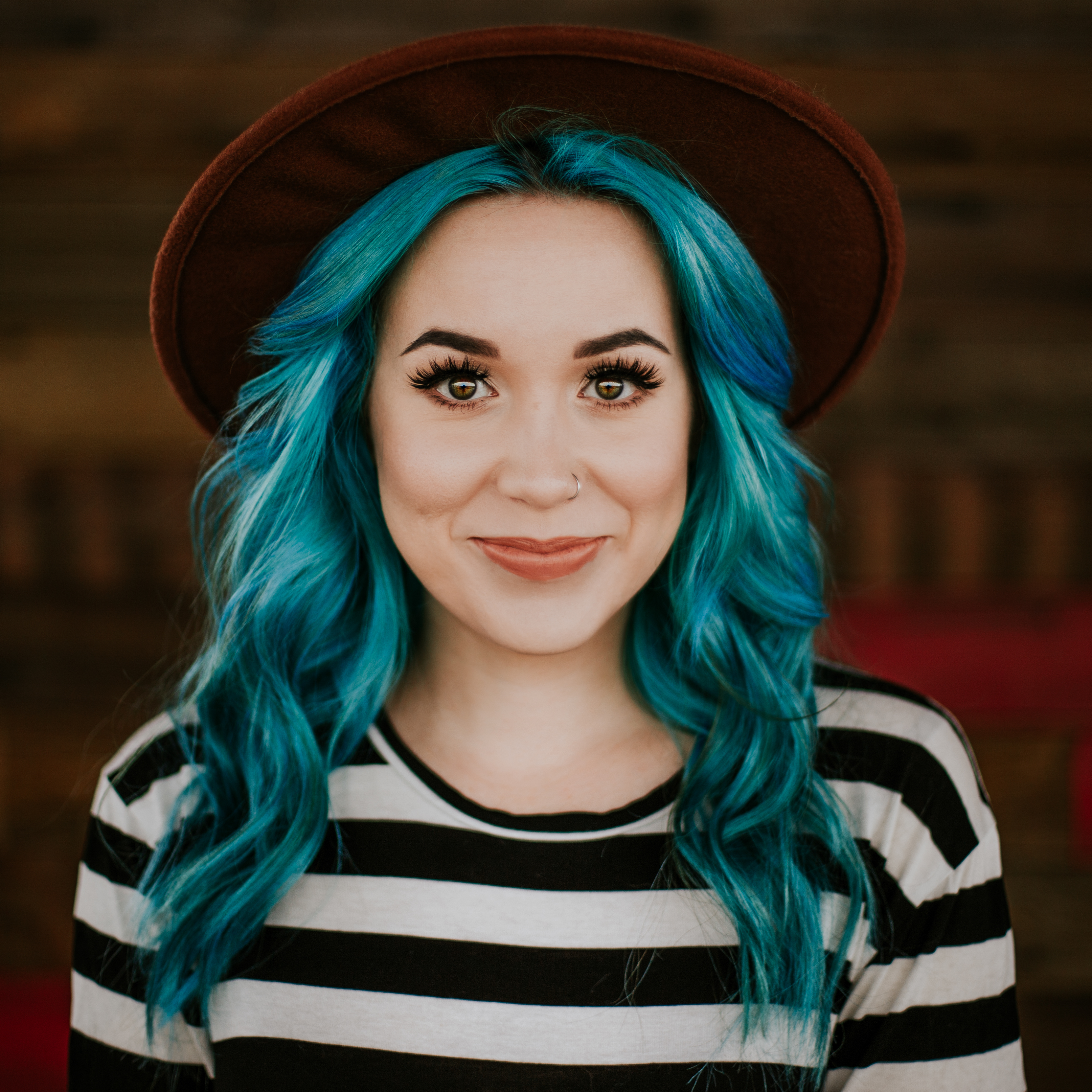 This is a picture of Amy Soranno taken in 2020. The original photograph, File:Amy Soranno.jpg, was taken by Nick Schafer. Then I (User:Thivierr ) cropped the image to have square dimensions, so it would look better than the landscape original (I couldn't make it a portrait orientation, because there was not enough background). I (Thivierr) release my changes on the identical license as the original.